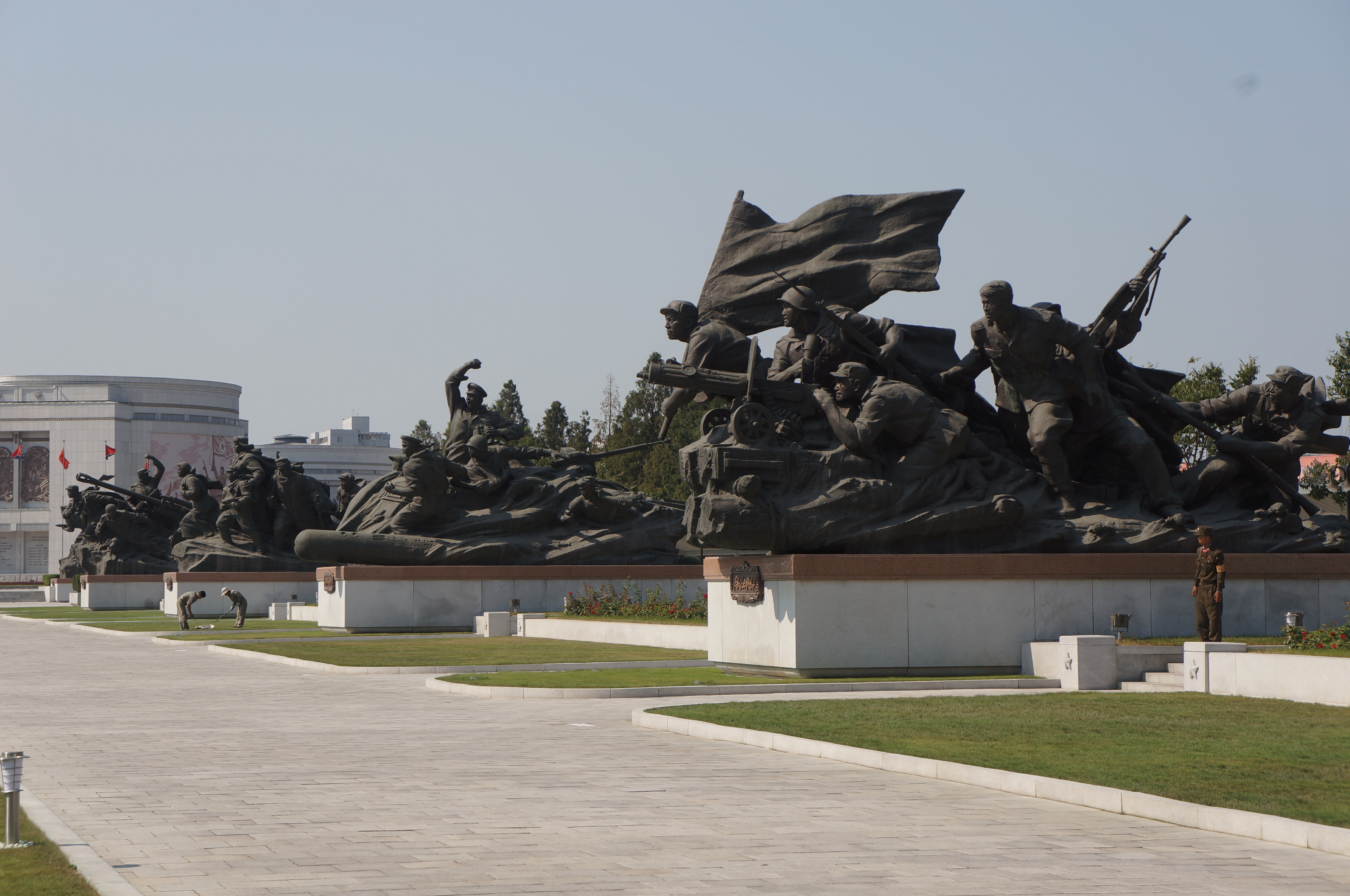 Pyongyang DPRK North Korea. Newly renovated, taken in September 2013